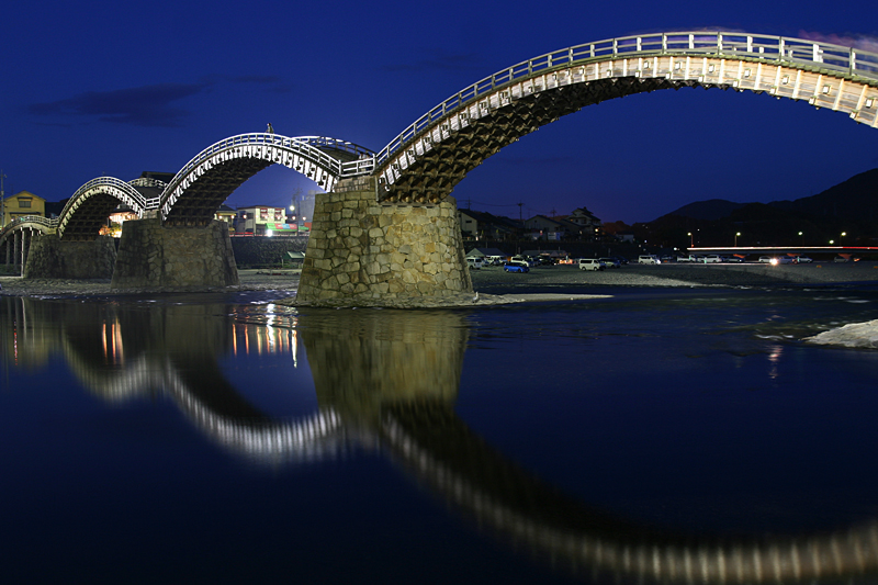 The Kintai Bridge is a bridge in the city of Iwakuni, in Yamaguchi Prefecture, Japan